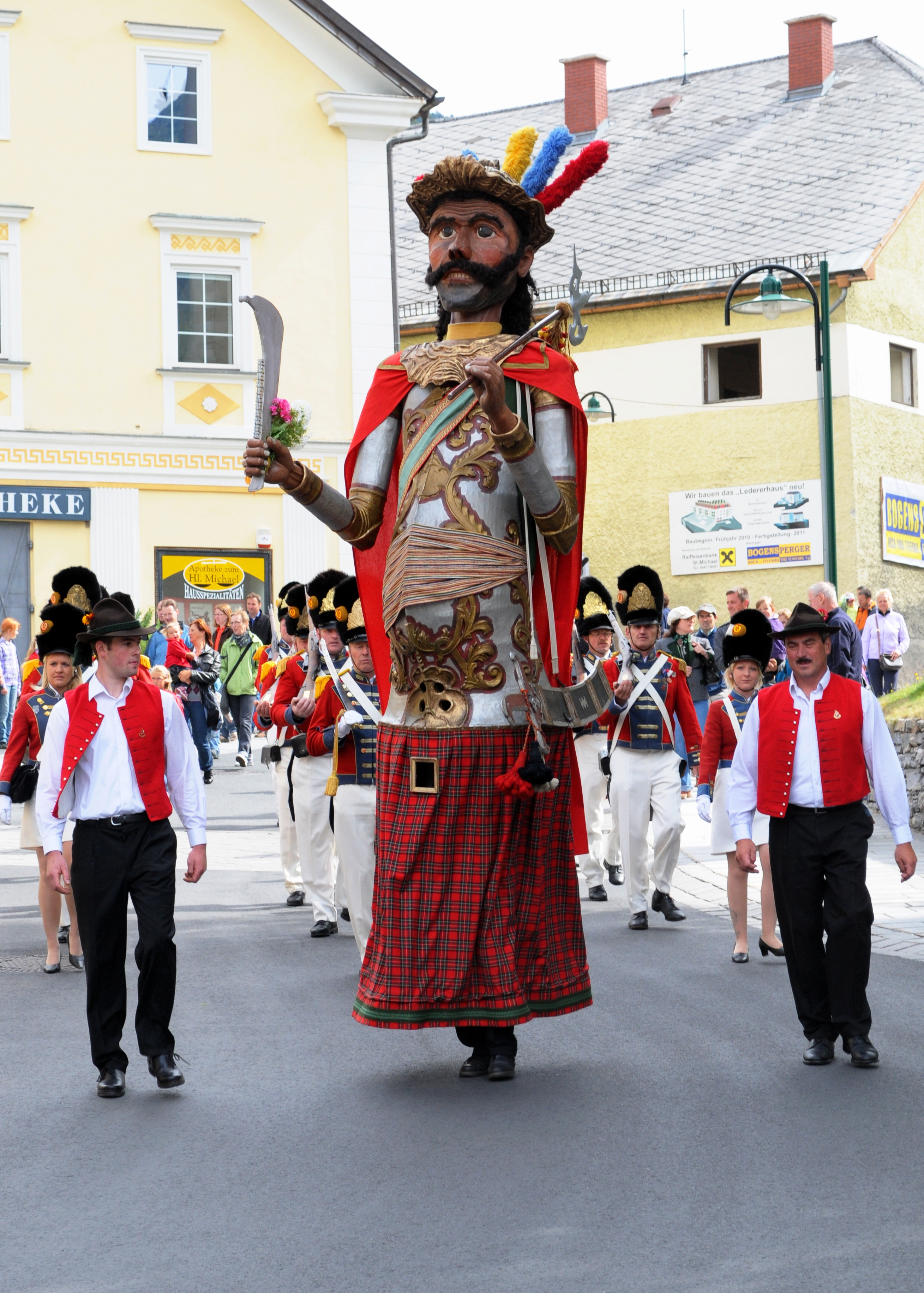 Samson parade Sankt Michael im Lungau